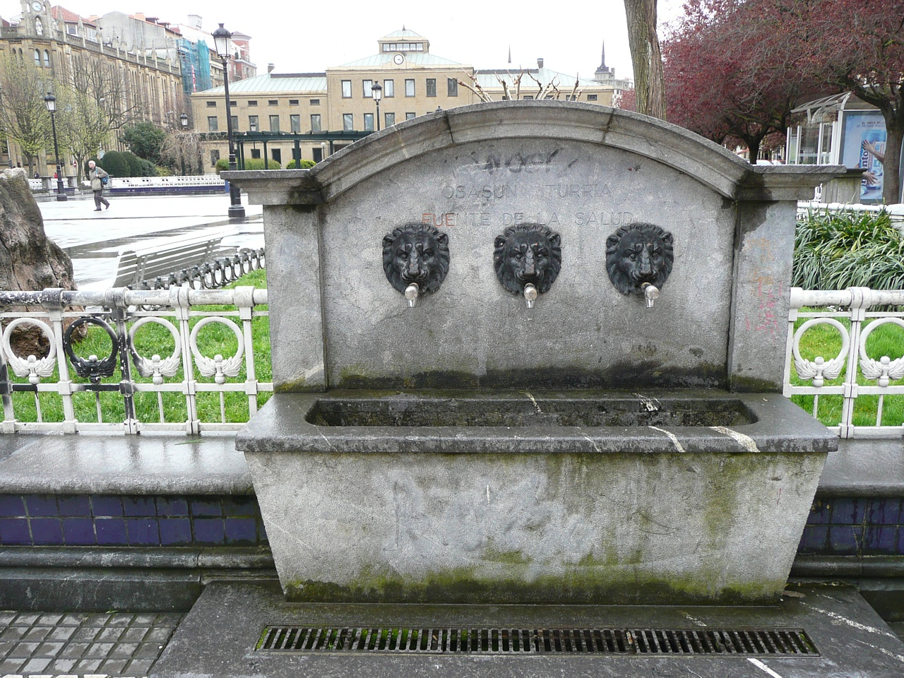 Osasun Iturria in Amara.